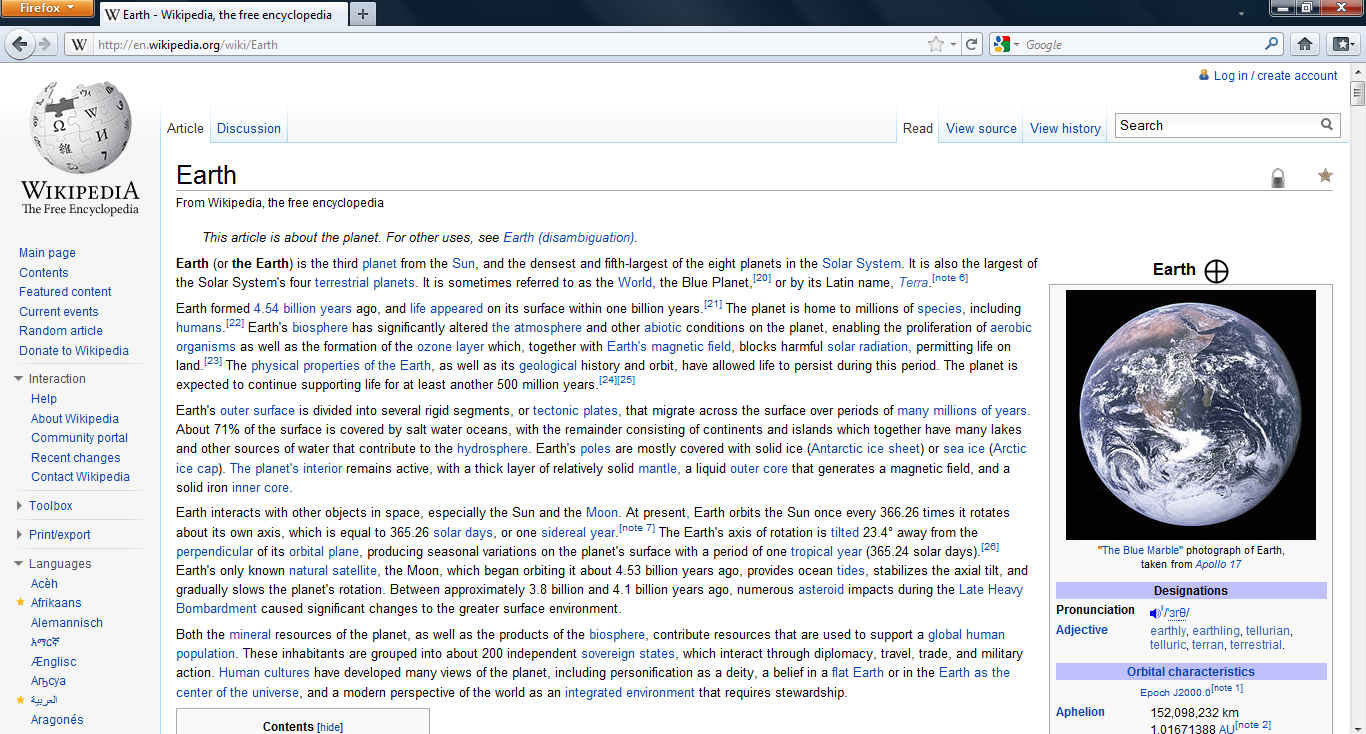 Firefox 6 running on Windows Vista.